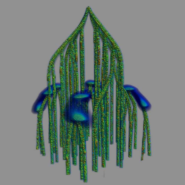 Volume visualization of cellular automata simulation of evolution by Jack Corliss. Vertical axis represents time (moving down); horizontal axes represent speciation (variations in 2 characteristics, in this case).